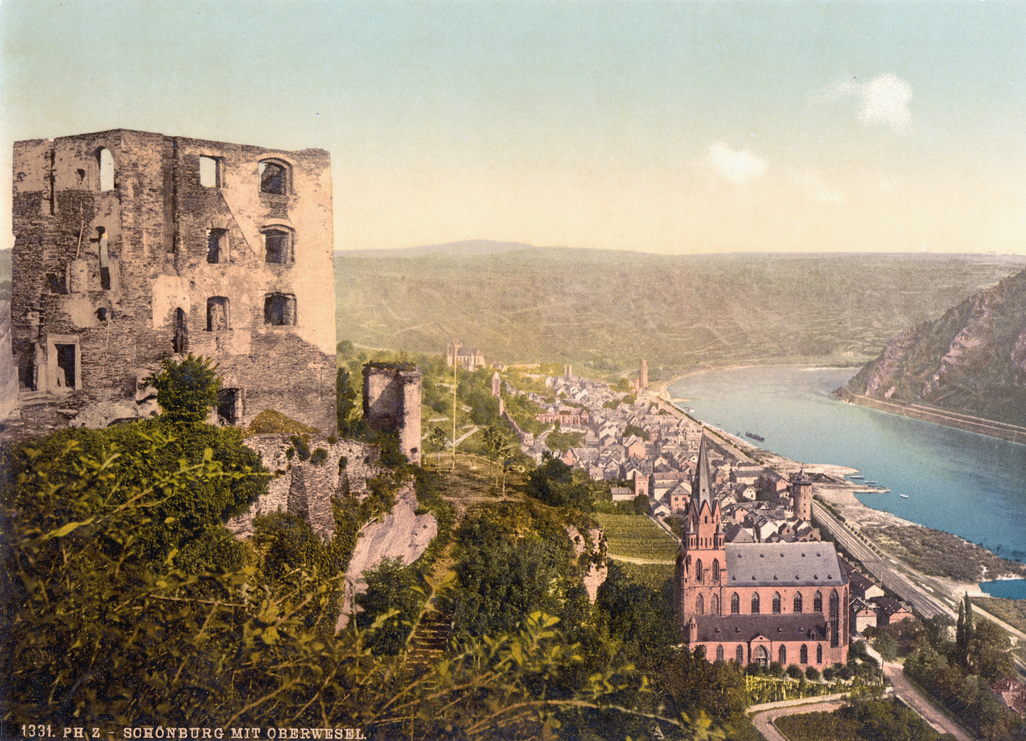 Ruins of the Schönburg in Oberwesel, Germany